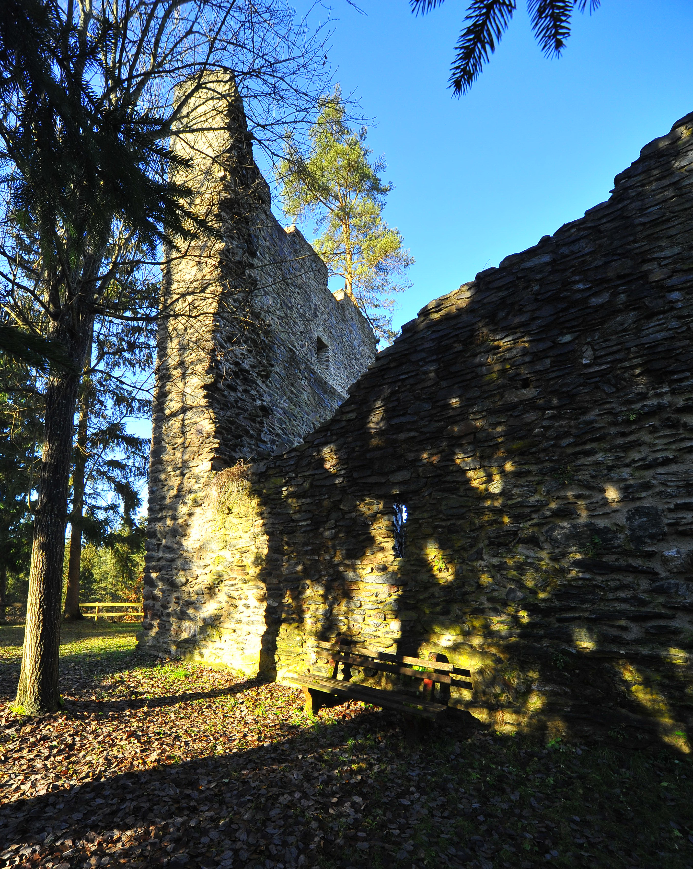 Donjon of the castle ruin Arnulfsfeste in the municipality Moosburg, district Klagenfurt Land, Carinthia, Austria